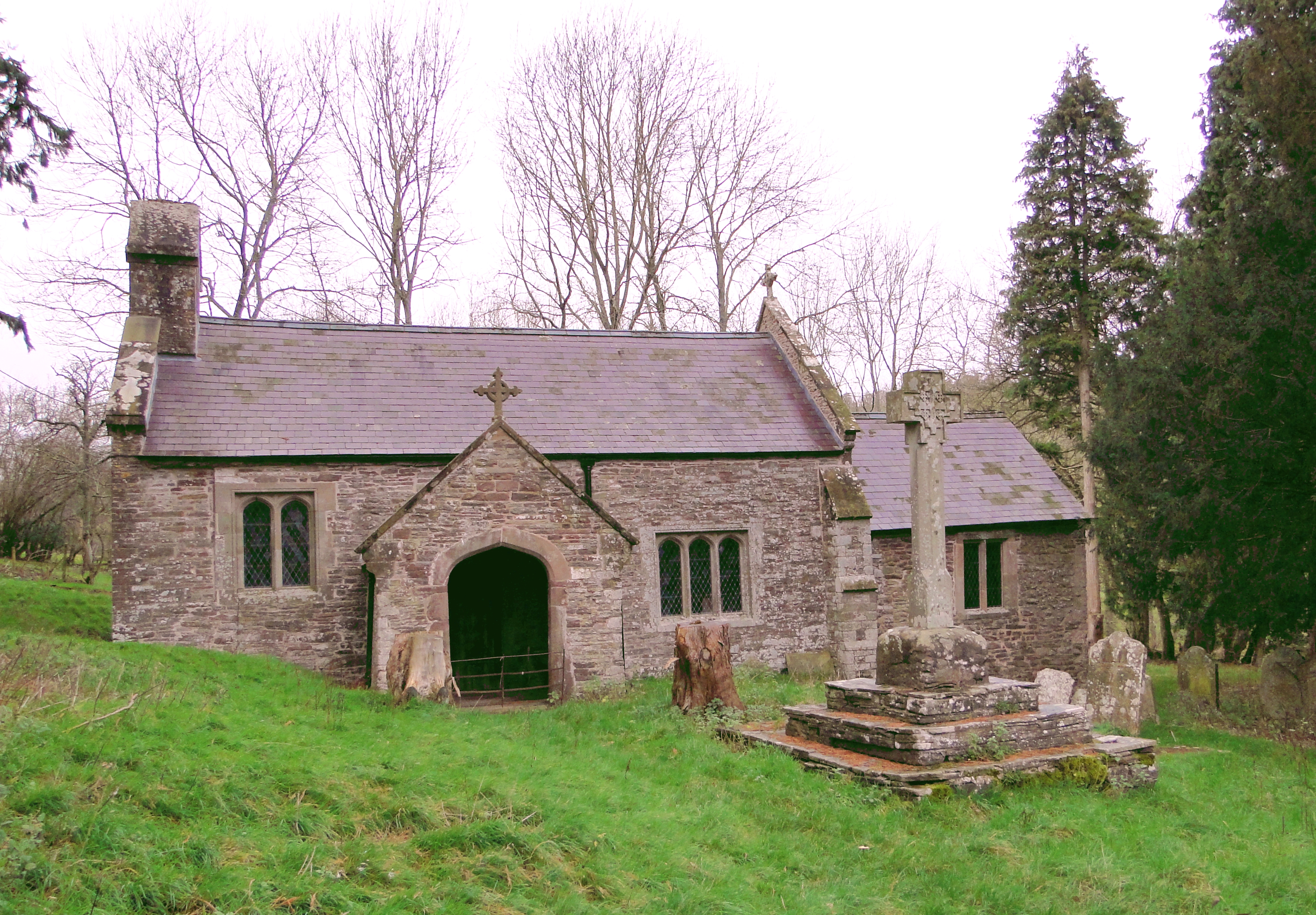 St Peter's parish church, Llancillo, Herefordshire, seen from the southeast. The churchyard cross (right) is separately listed.